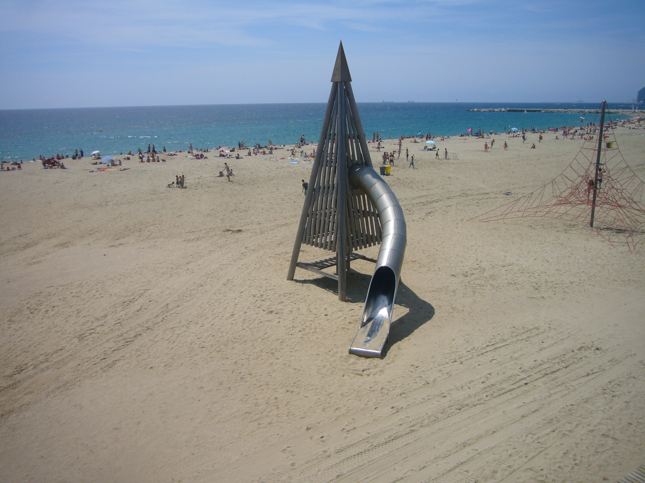 Platja de la Mar Bella (Barcelona)